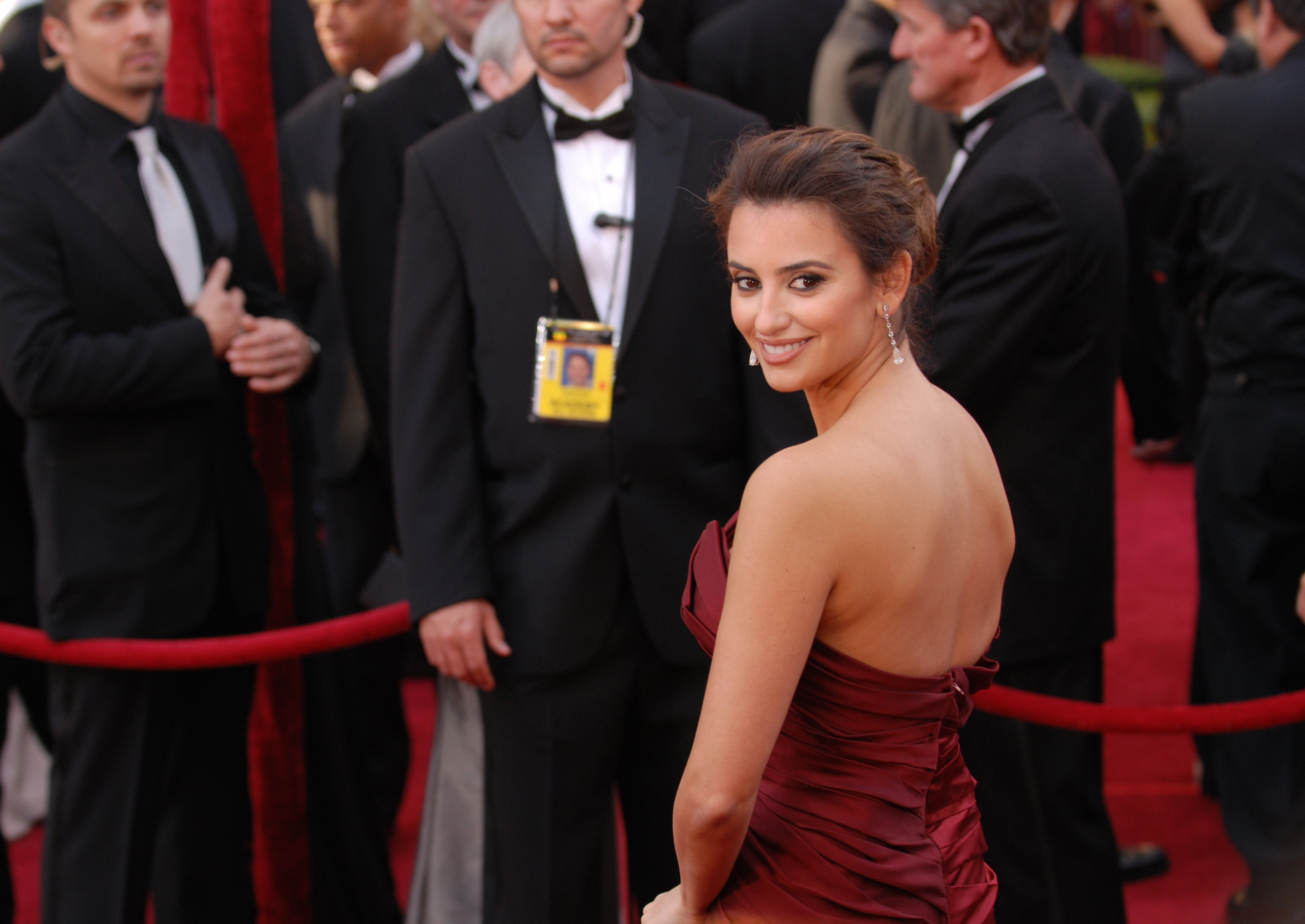 Penélope Cruz arrives at the 82nd Academy Awards, March 7, in Hollywood, Calif. She was nominated for a supporting actress Oscar for her role in "Nine."